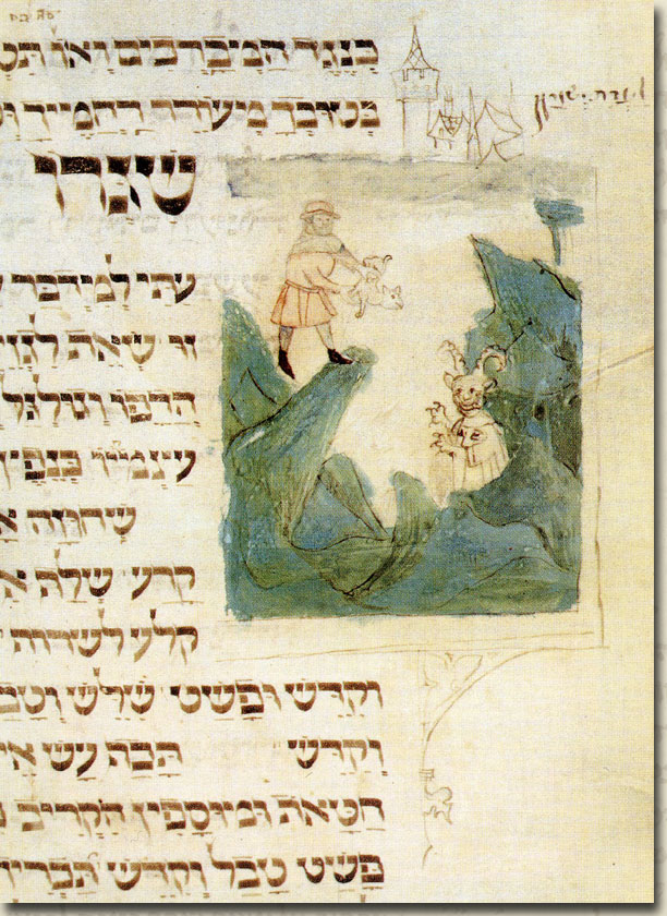 In accordance with the tradition for the Day of Atonement (Yom Kippurim) in Leviticus 16:22, and as described in the Babylonian Talmud (Yoma 67b) a scapegoat is cast from Mount Azazel into the abyss, to Azael, who appears as a horned and clawed mountain demon. Illustration from a Machzor (MS Kaufmann A 387) produced in Germany, perhaps Heilbronn, between 1370 and 1400.